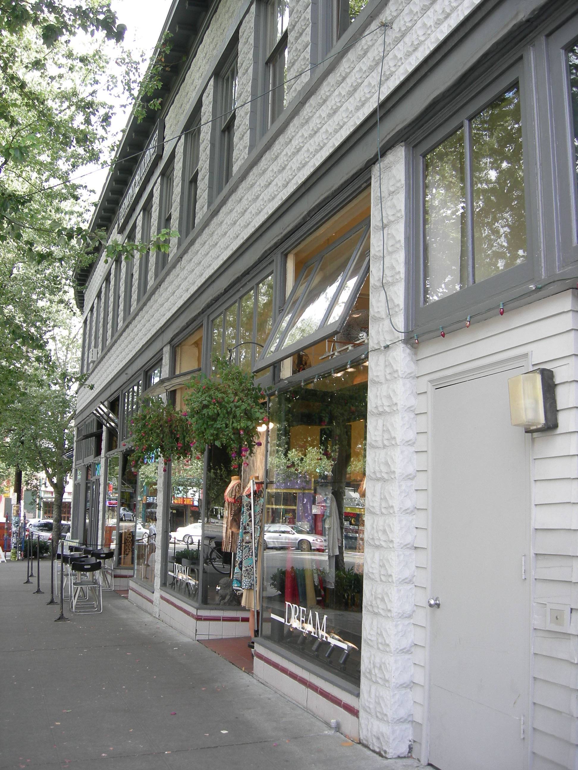 Fremont Building, Fremont neighborhood, Seattle, Washington. Listed on the National Register of Historic Places. Also a city landmark under the name Fremont Hotel.